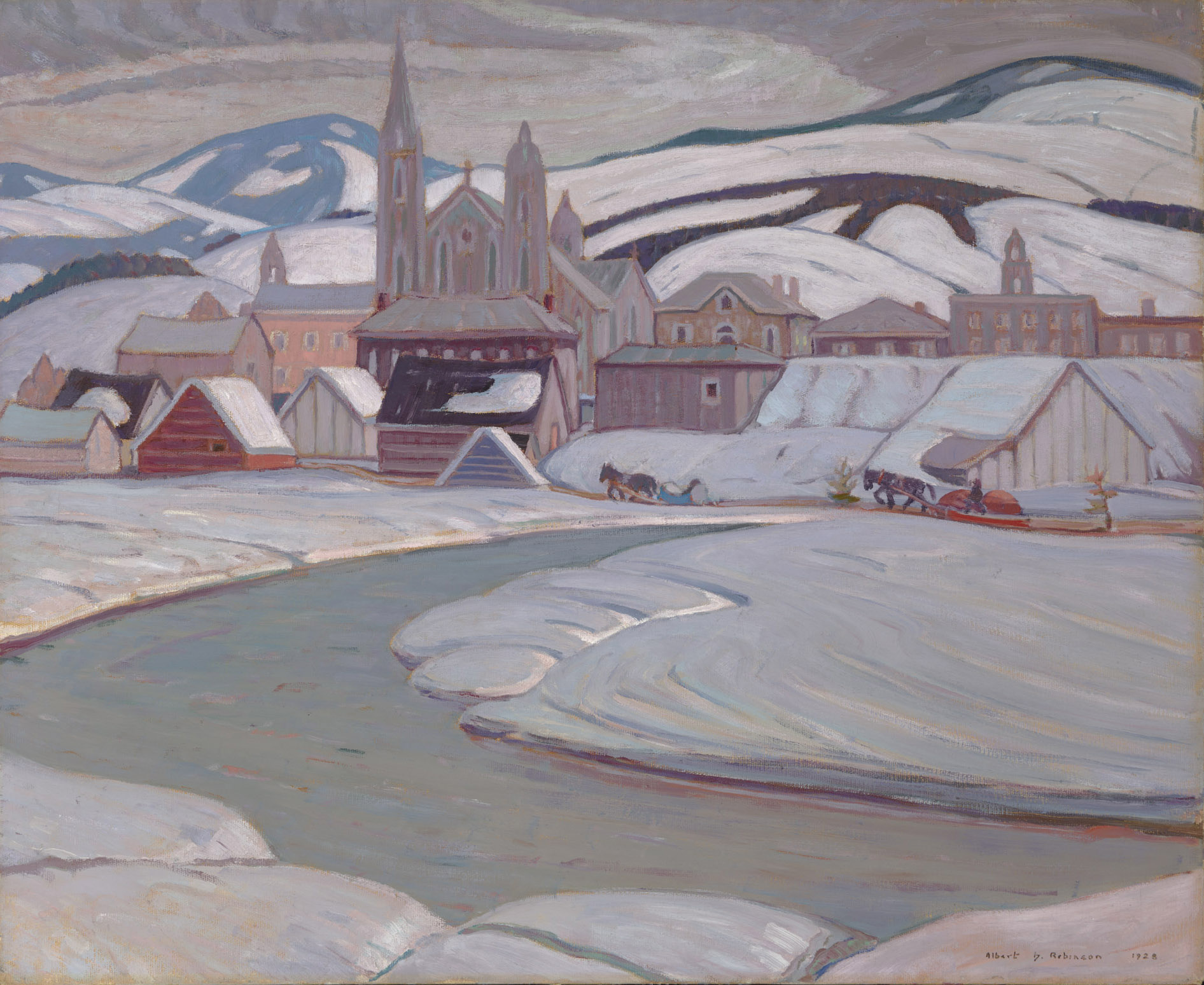 On Baie-Saint-Paul the distant viewing point enables the painter to create a composition similar to a landscape of La Malbaie by Robinson. The foreground occupies over half of the height of the canvas and consists of a mass of snow through which a crescent-shaped stream of water flows. This stream directs the gaze of the viewer to the center of the painting where horse-drawn sleds are shown sliding over the road that stretches the entire width of the canvas. The silhouette of the center of Baie-Saint-Paul forms an architectural frieze unified by the color tones used to render the shades of brick walls. Unlike the view of La Malbaie, the orientation, the nature and the size of the buildings are much more heterogeneous.